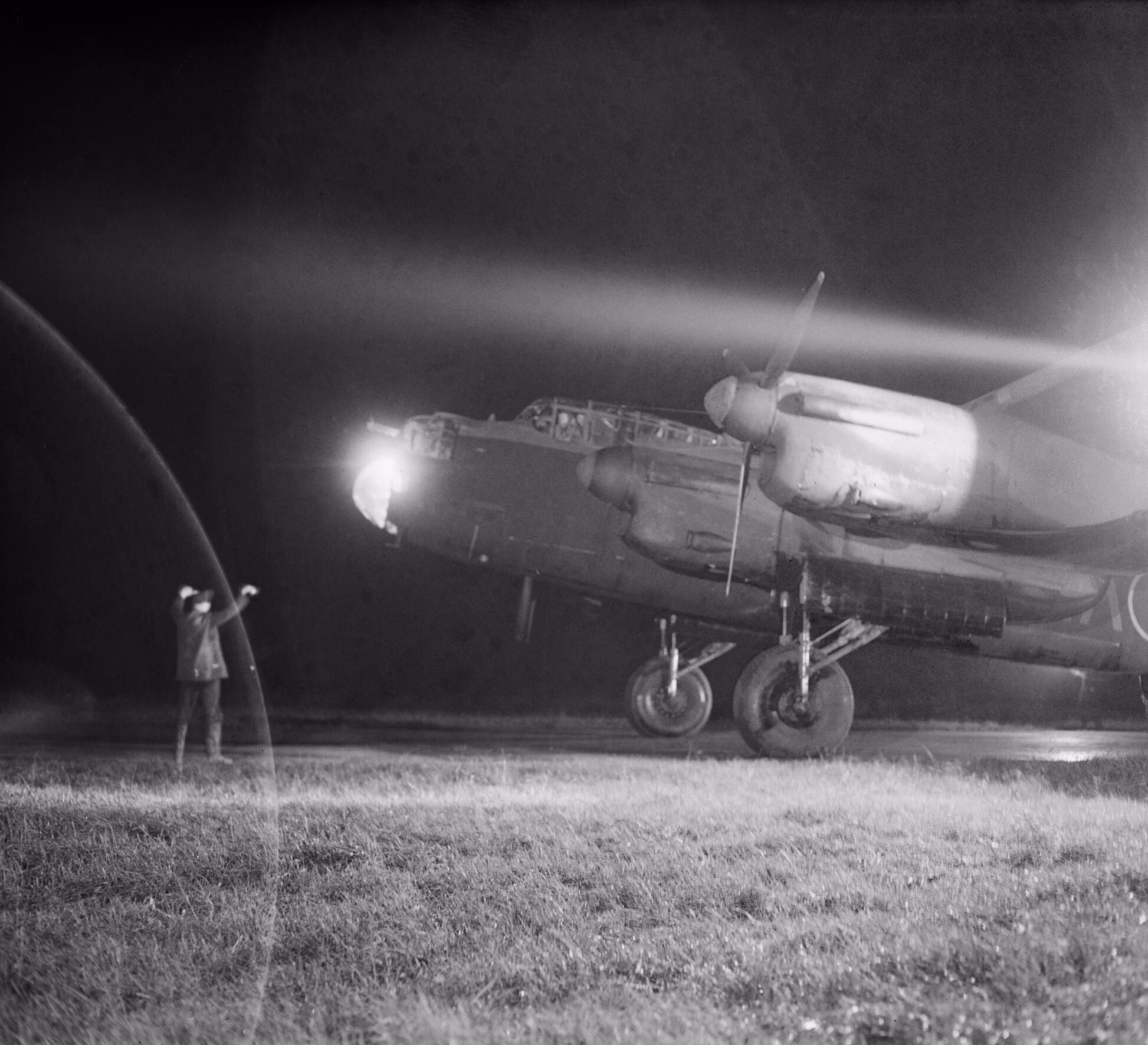 An Avro Lancaster Mk III of No. 49 Squadron RAF is guided to its dispersal point at Fiskerton, Lincolnshire, after returning from a raid on Berlin, 22 November 1943. A member of the ground crew, illuminated by a lamp shining from the bomb-aimer's position, guides Avro Lancaster B Mark III, JB362 'EA-D', ("D for Donald") of No. 49 Squadron RAF to its dispersal point at Fiskerton, Lincolnshire, after returning from the greatest and most destructive raid mounted on Berlin to date (22/23 November 1943); the main weight of the raid falling in the centre and south of the city with extensive damage both to housing and to industrial premises. Warrant Officer H Blunt and his crew arrived safely back at their dispersal a few minutes before midnight on 22 November, but were shot down and killed in "D for Donald" when returning from their next visit to Berlin, Germany on 27 November 1943.